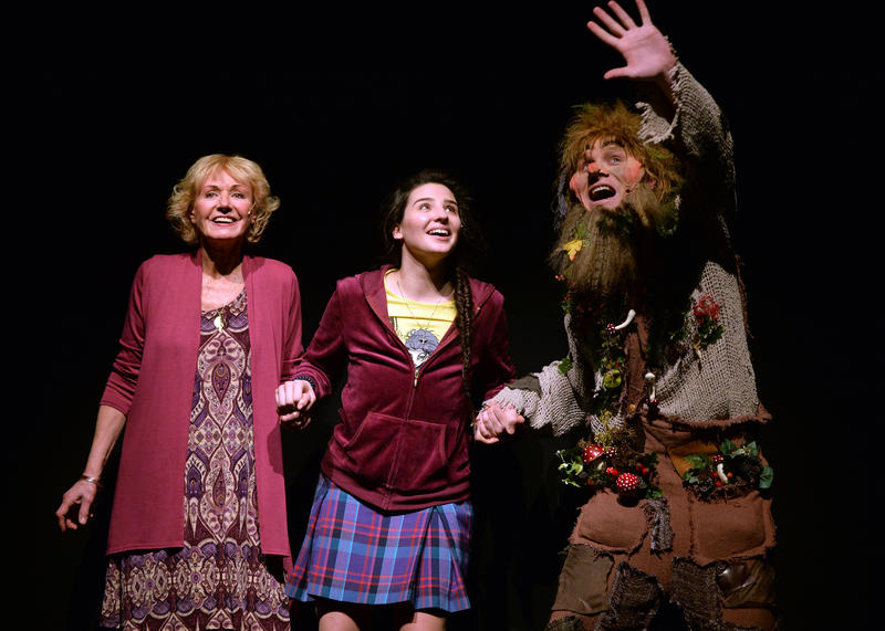 The musical Droomvlucht by Městské divadlo Brno